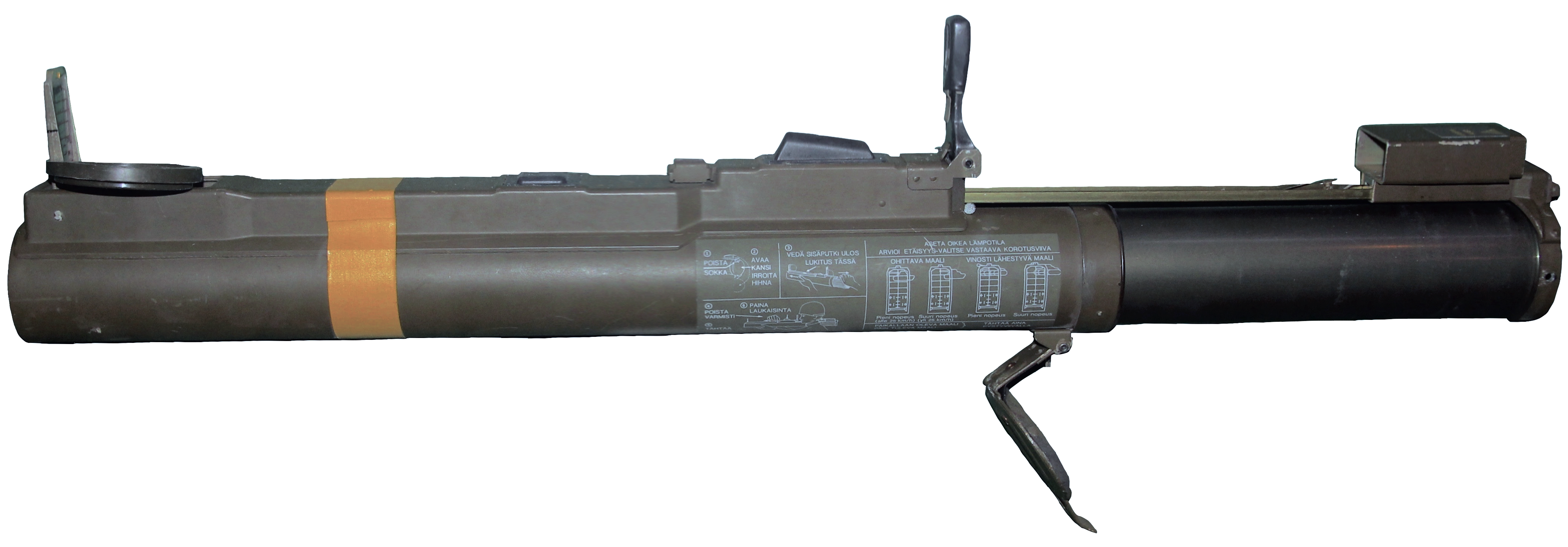 M72A2 LAW disposable anti-tank rocket, Finnish designation 66 kertasinko 75.